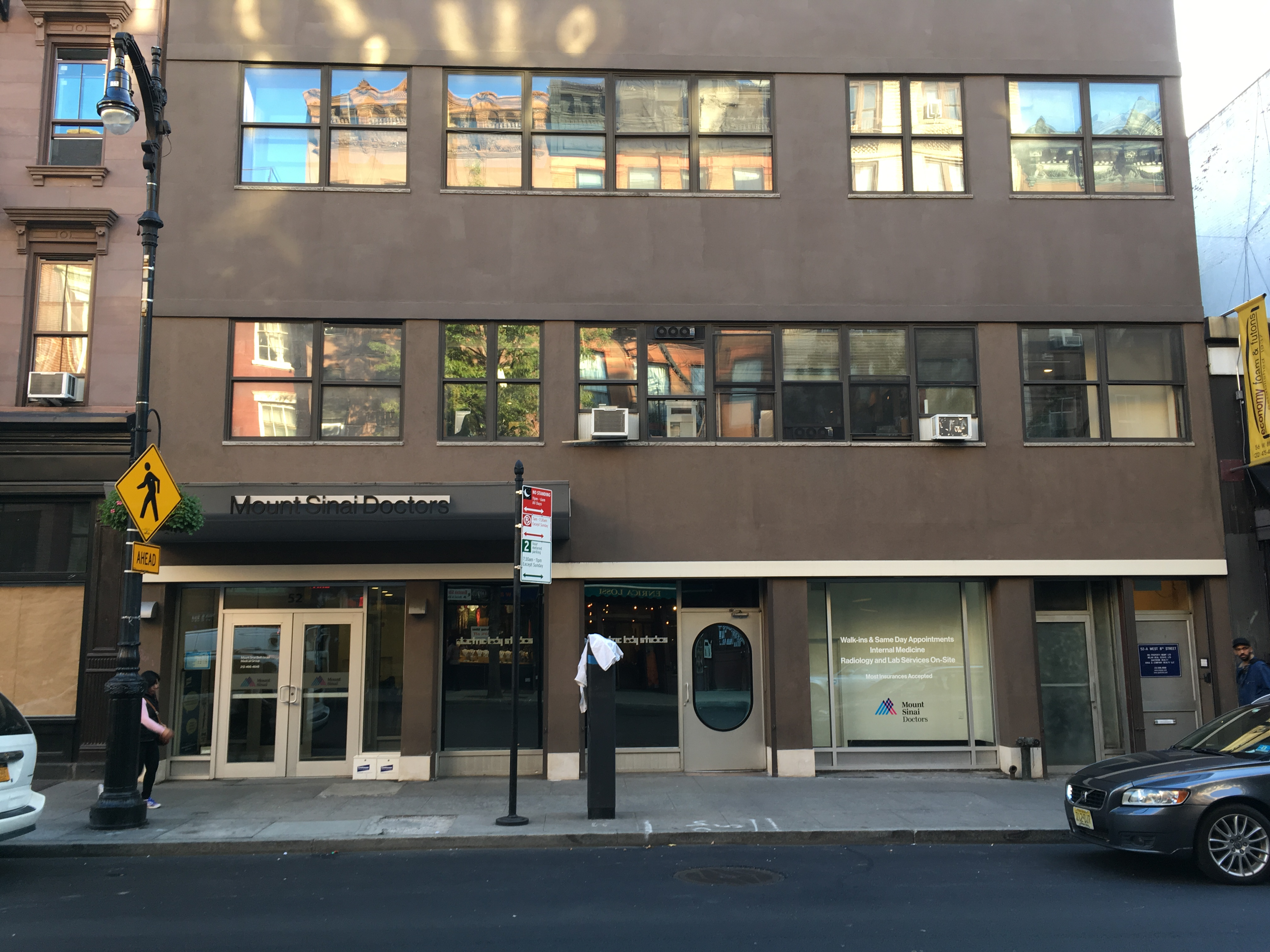 A picture of the front of Electric Lady Studios for Mission #5 - CIS 3750.